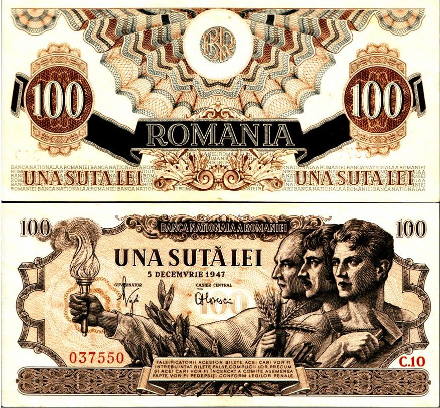 100 Romanian leu from 1947 - averse and reverse.